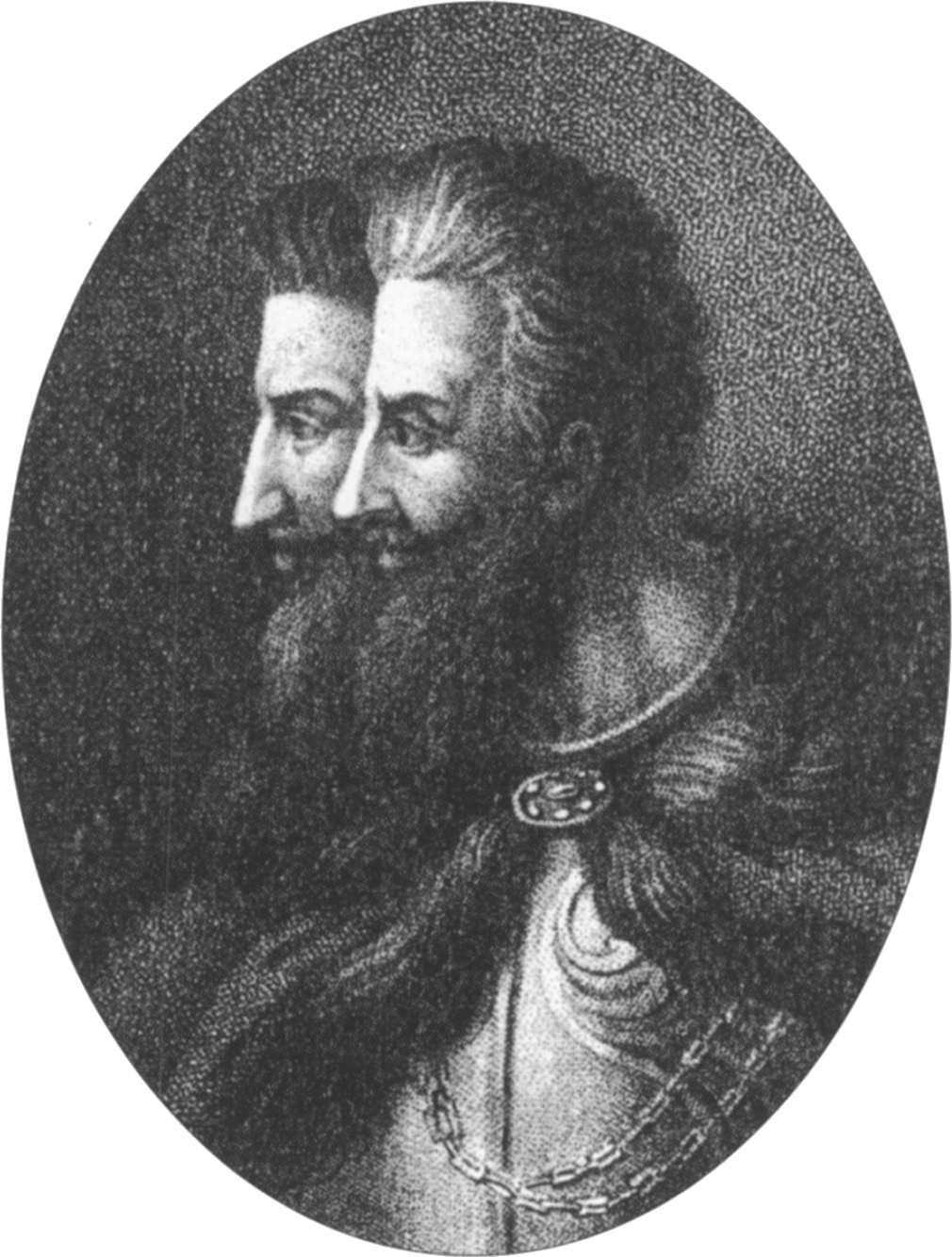 Jan & Jacob Potocki, polish commanders